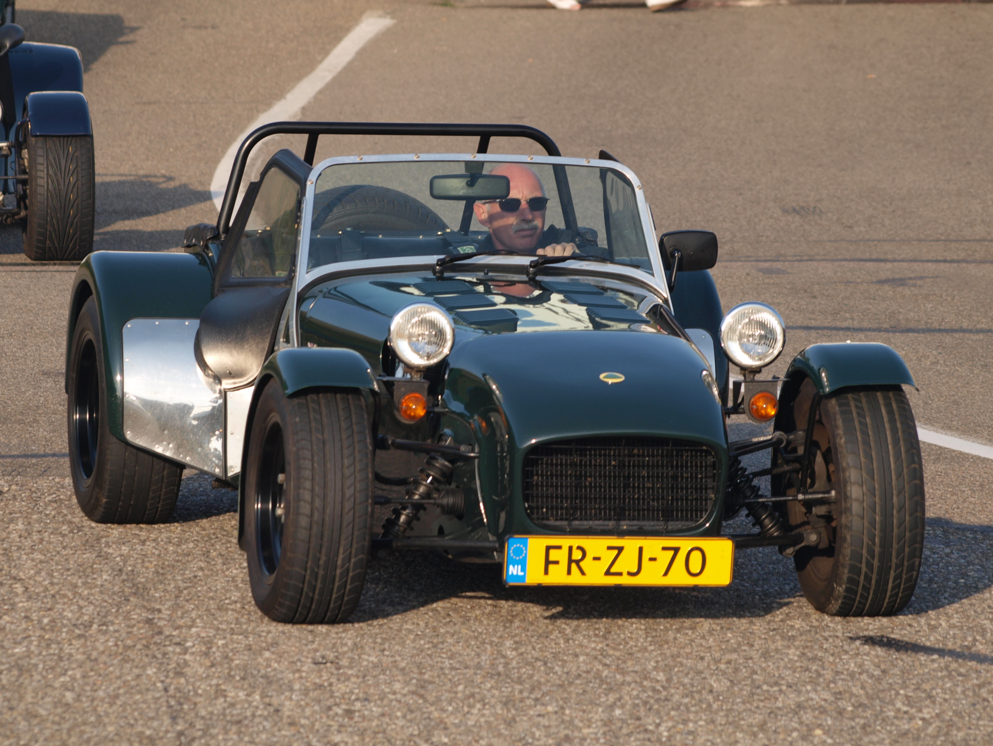 Photographed at the Nationaal Oldtimer Festival Zandvoort 2009, The Netherlands. OLYMPUS DIGITAL CAMERA